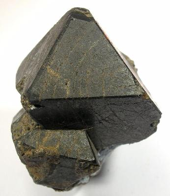 Gahnite, Spinel Locality: Amity, Town of Warwick, Orange County, New York, USA (Locality at ) Size: thumbnail, 3 x 2.8 x 2.5 cm Spinel (Gahnite) Very sharp, and nearly complete, set of Gahnite crystals. The luster is very good, and the largest crystal is 1.9 cm on edge. A truly superb specimen for the species and historic locality. It has old red ink catalogue numbering on one rear face.